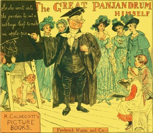 Randolph Caldecott's cover image of his 1885 children's book The Great Panjandrum Himself.